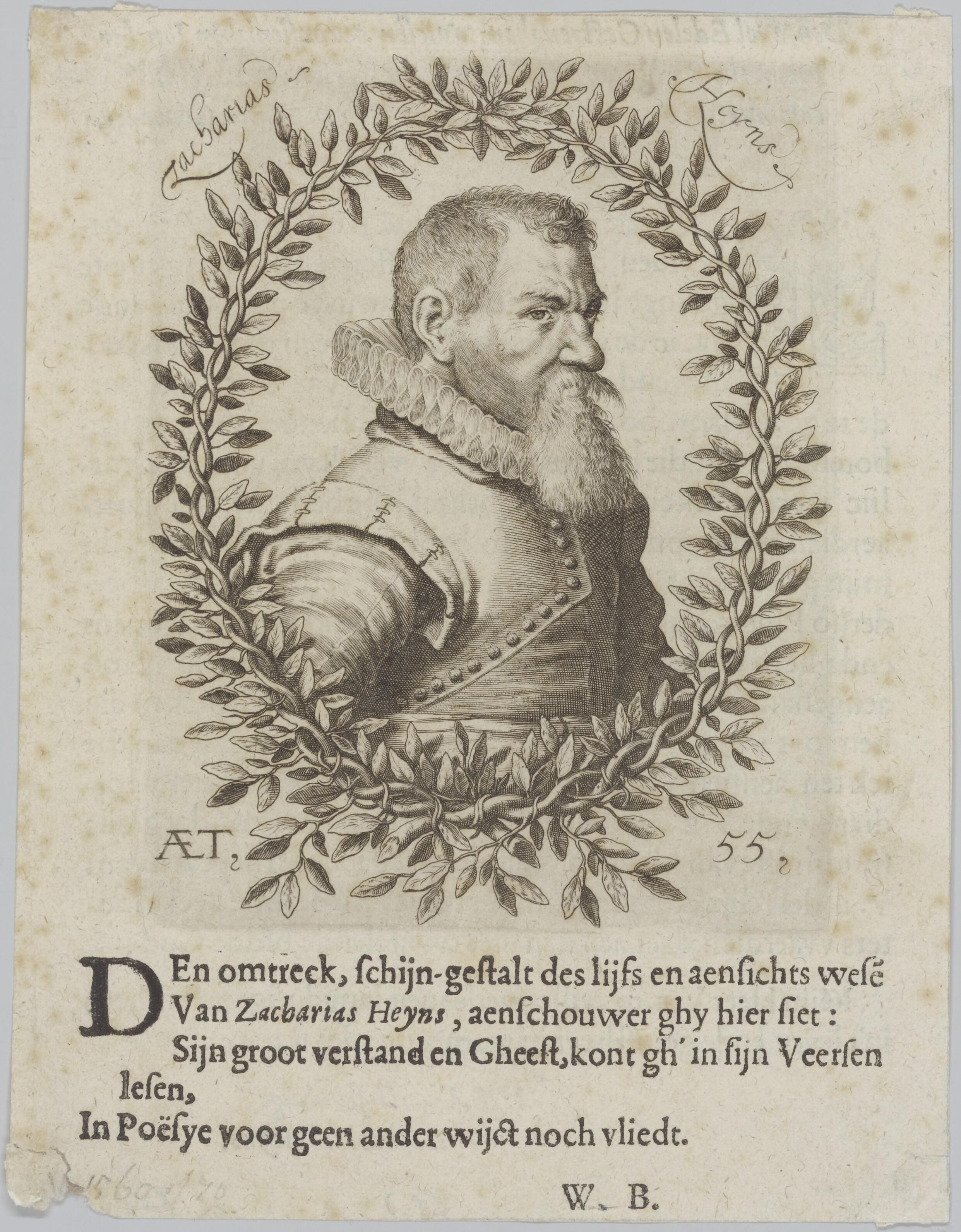 Portrait of Zacharias Heyns, aged 55 with verse by Willem Bartjens